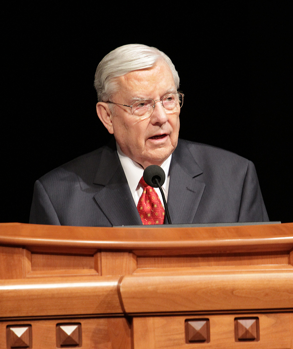 Photo of M. Russell Ballard speaking about Joseph F. Smith at the Brigham Young University Church History Symposium in Salt Lake City, Utah. M. Russell Ballard has been a member of the Quorum of the Twelve Apostles of The Church of Jesus Christ of Latter-day Saints (LDS Church) since 1985.